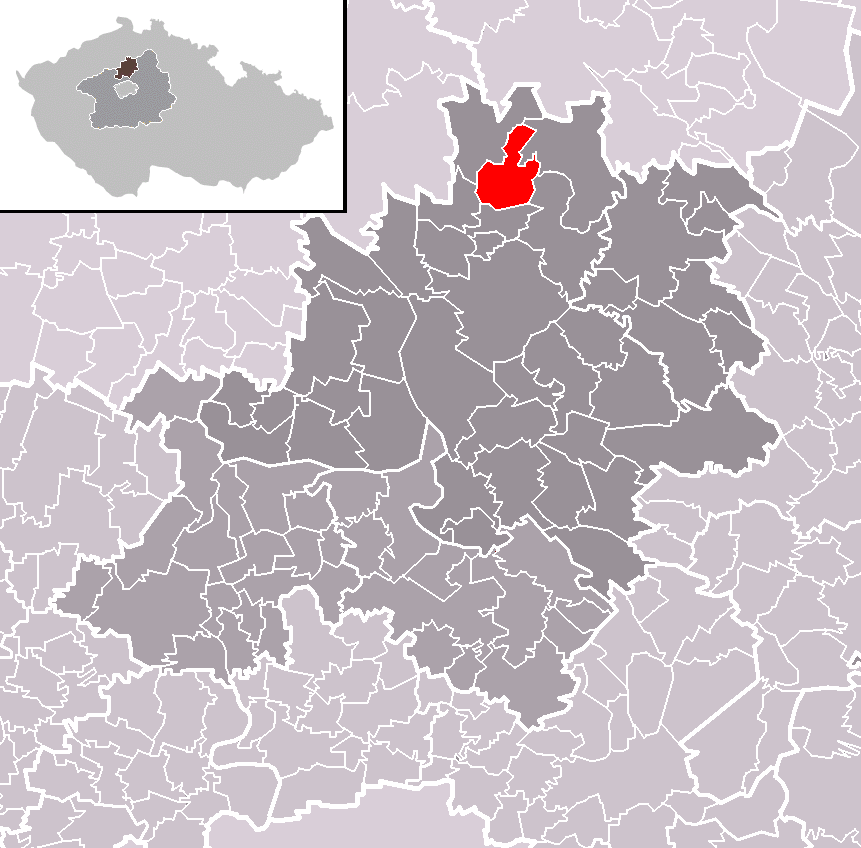 Location of Vidim municipality within Mělník District and administrative area of Mělník as a Municipality with Extended Competence.